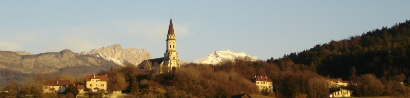 Visitation and mountains (Tournette and dents de lanfon).